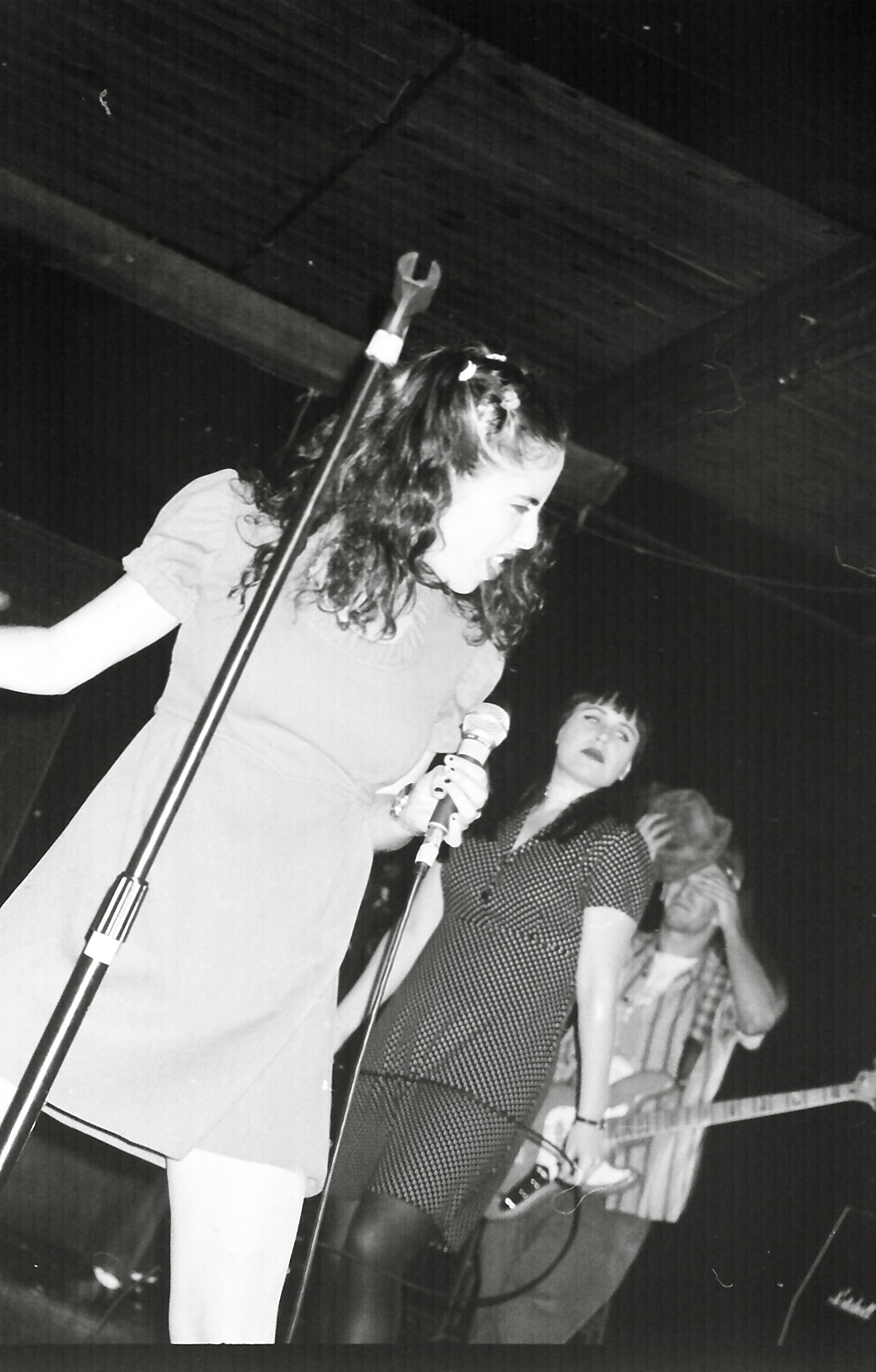 Dance Hall Crashers at The Masquerade in Atlanta, GA in 1998